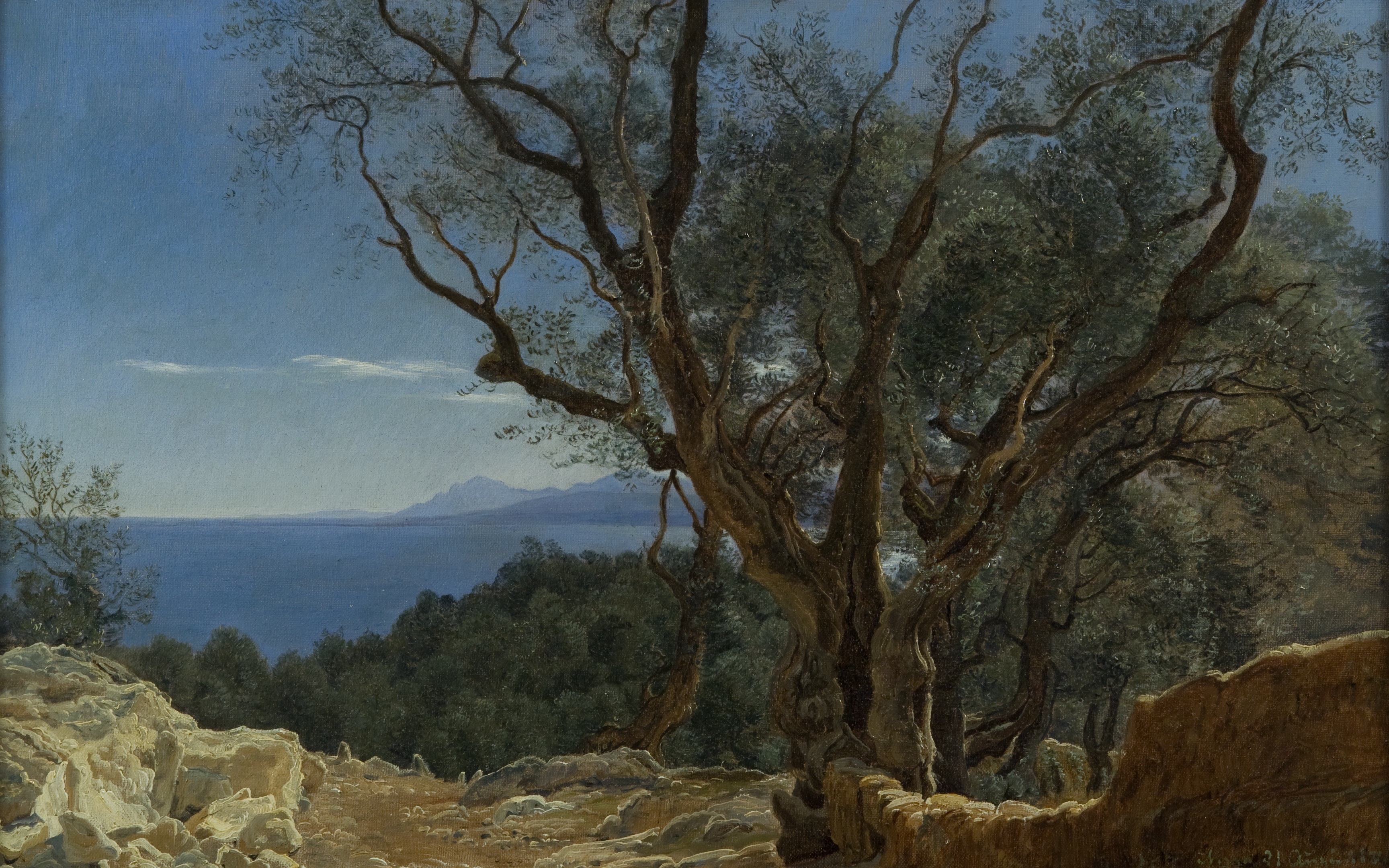 View over Nice, France - Siged and dated JLC Nizza 21 august 1865 - Oil on canvas - 39 x 62cm.